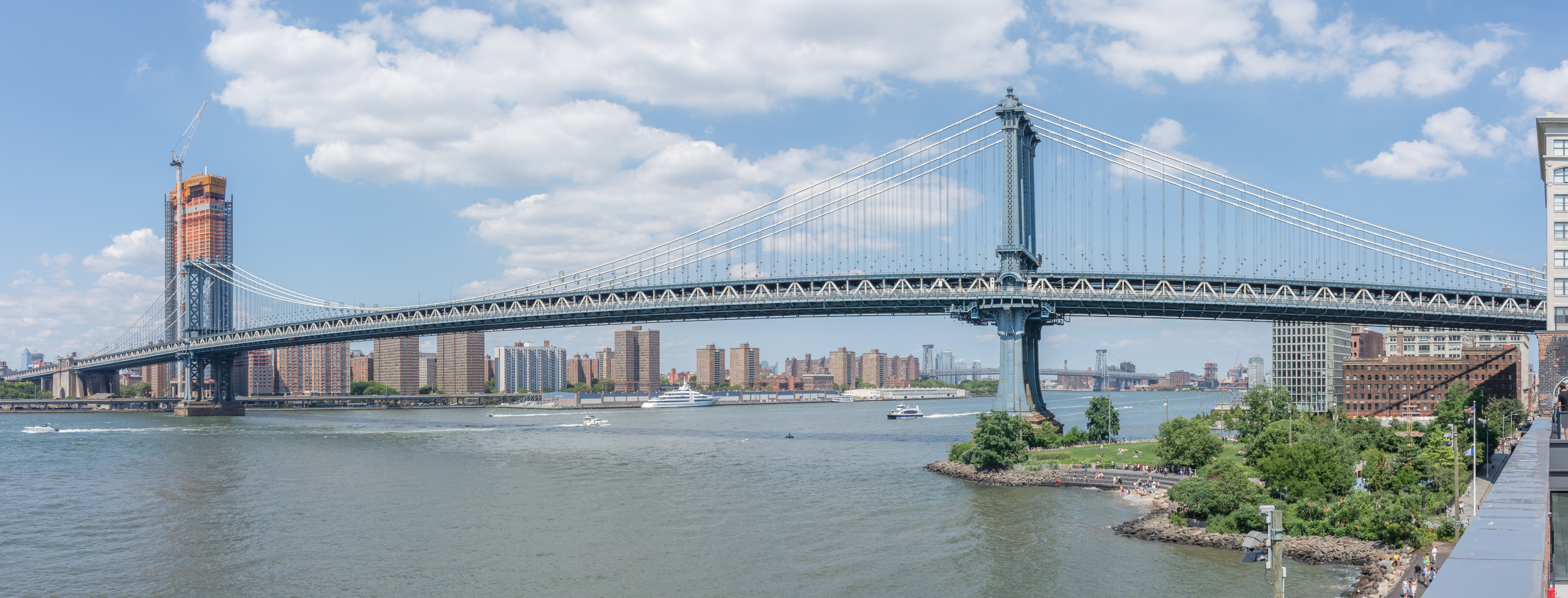 The Manhattan Bridge as seen from Dumbo, Brooklyn in July 2017.